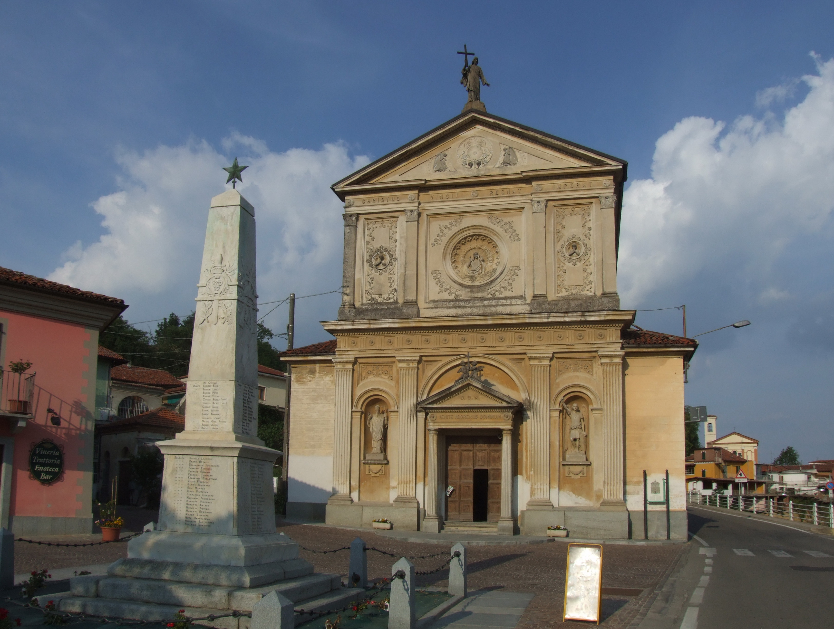 St. Nicolao Church (St. Nicholas), Monteu Roero, Italy